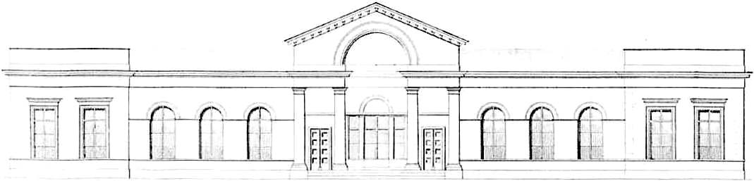 Former Haarlem Railway Station, front elevation. 1842.